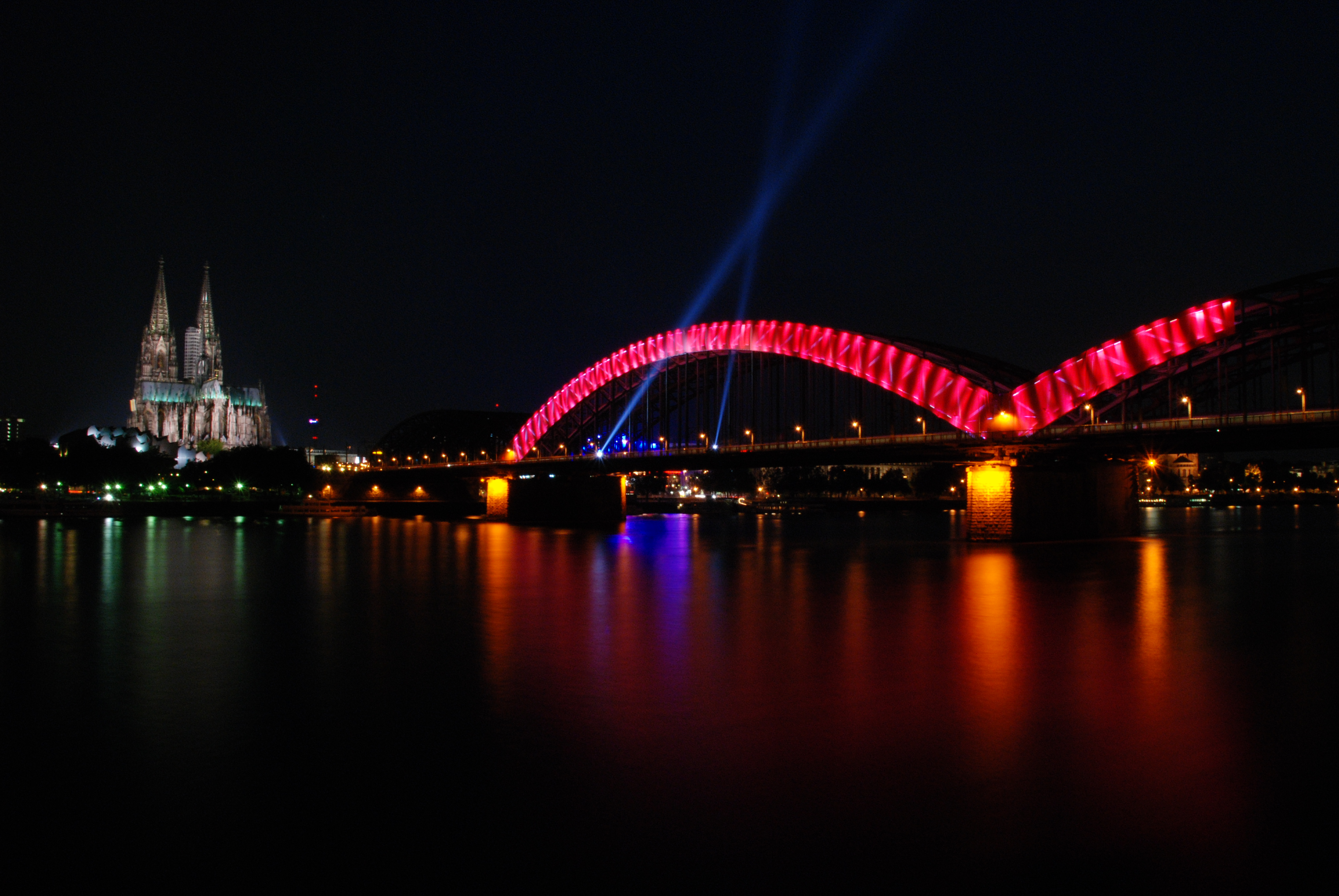 The adorned Hohenzollern Bridge on the occasion of the Deutscher Evangelischer Kirchentag 2007 in Cologne.